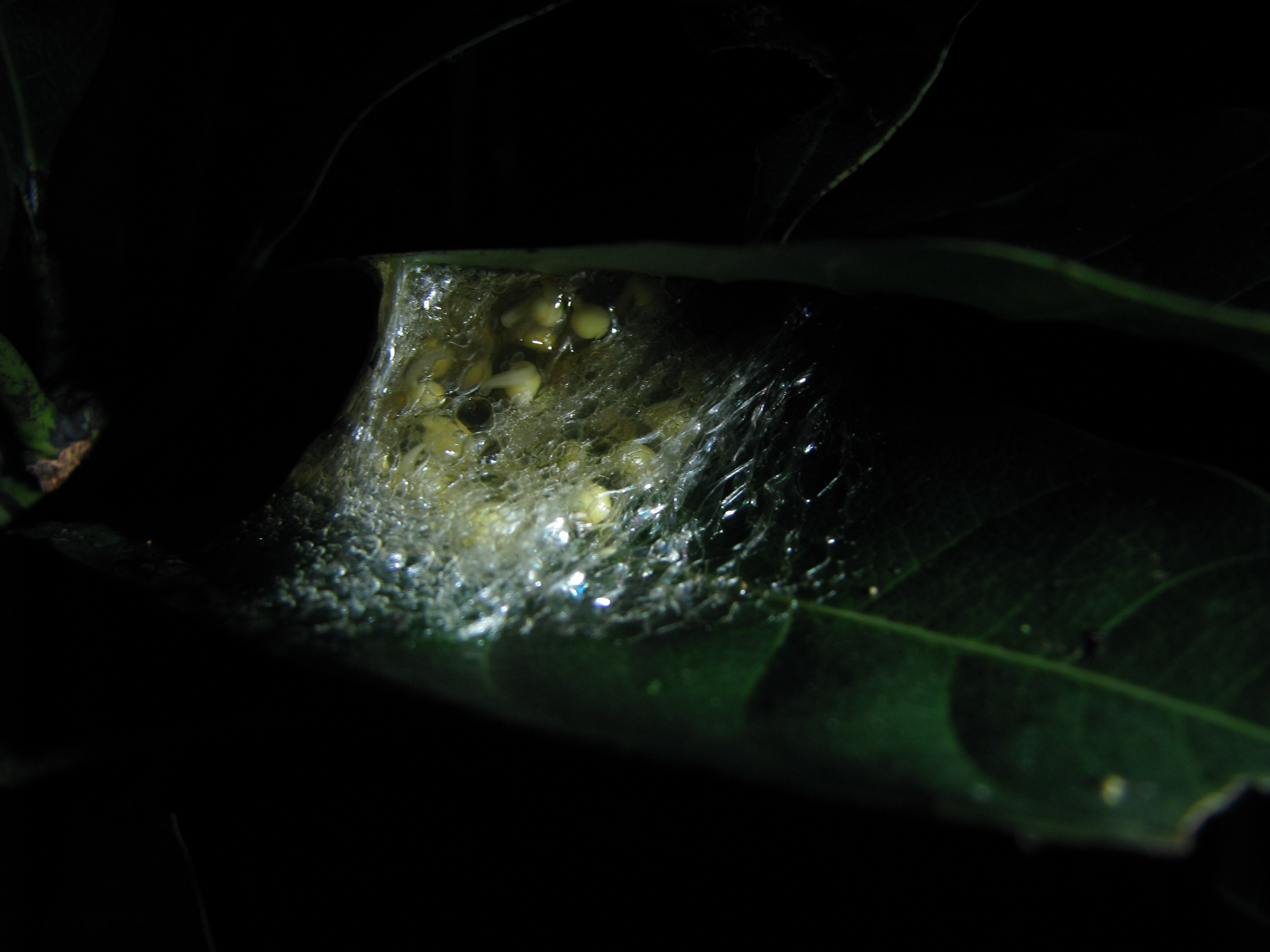 Photo of nest of Rhacophorus lateralis in leaves taken near Mojo Plantation in Coorg, Karnataka